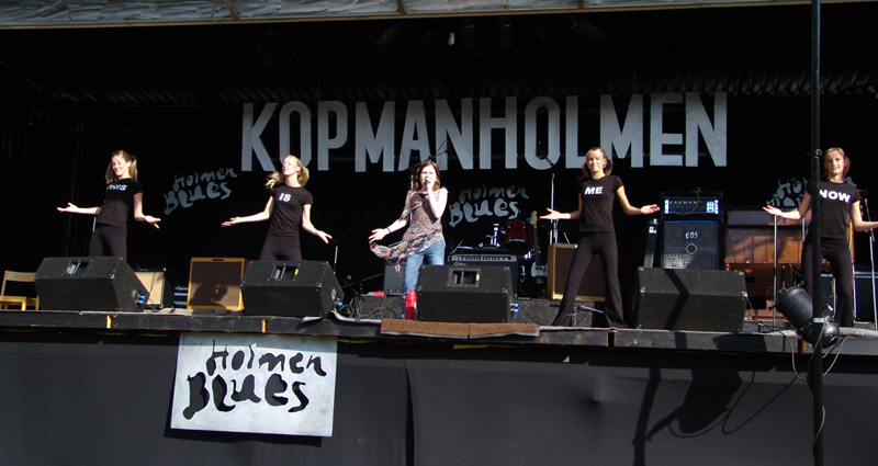 Amy Diamond with dancers on stage at the Holmen Blues festival on 2005-06-18